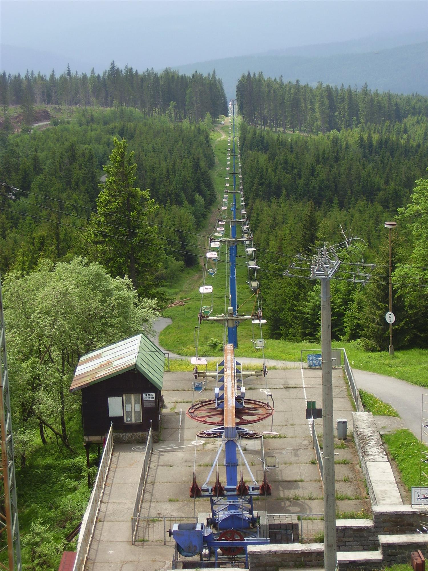 Cableway Špičák - Hofmanky - Pancíř in Šumava from Watch tower on Pancíř